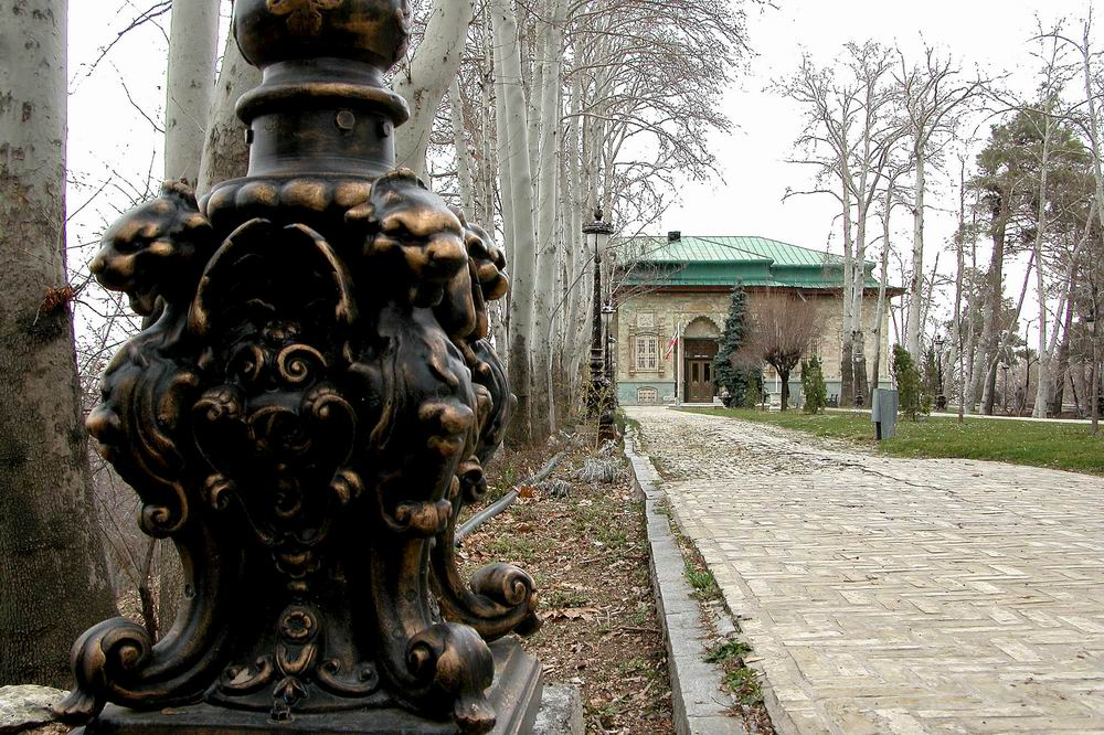 Green museum